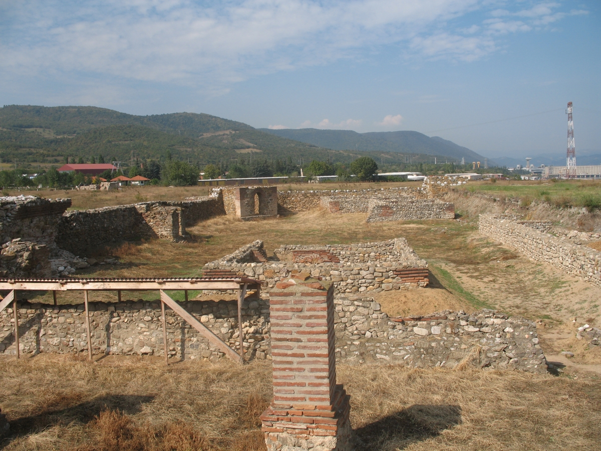 View on southwestern part of Roman castrum Diana (barracks (ABC on plan) and original south gate (G on plan)) on Danube in Karataš,next to HE Đerdap I,Serbia.